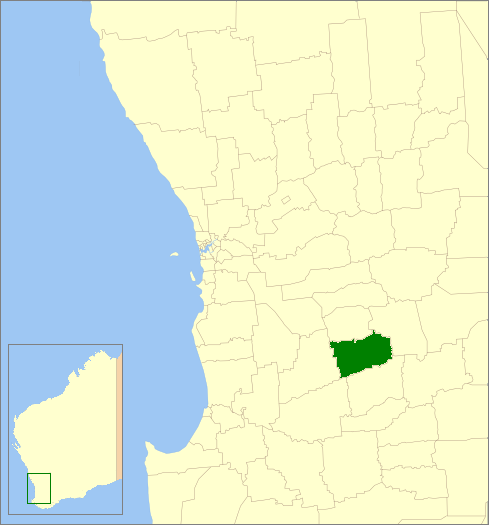 Shire of Narrogin following amalgamation on 2016-07-01